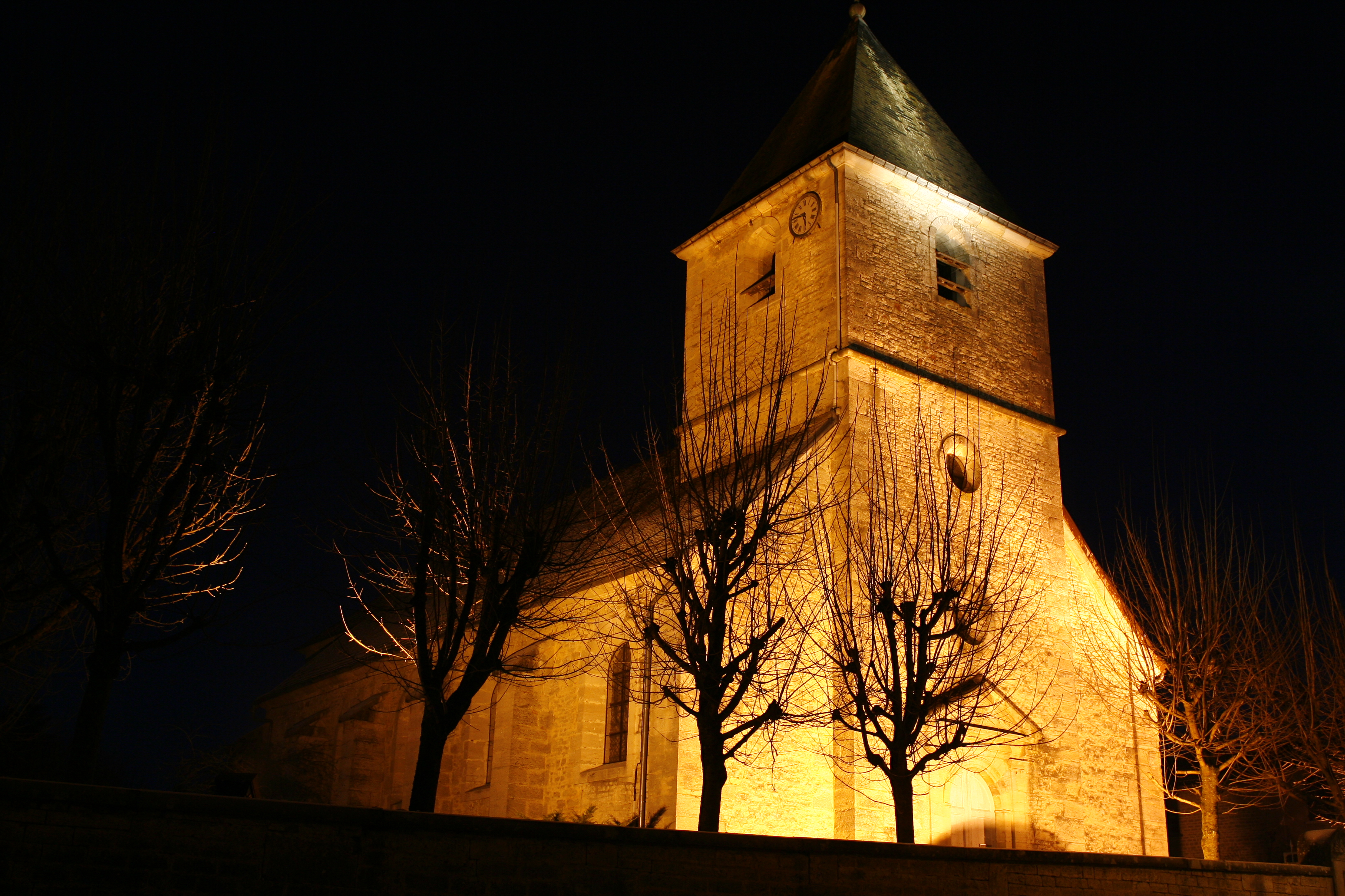 Longchamp-sur-Aujon church, by night (pic by Bertrand THIEBAULT)